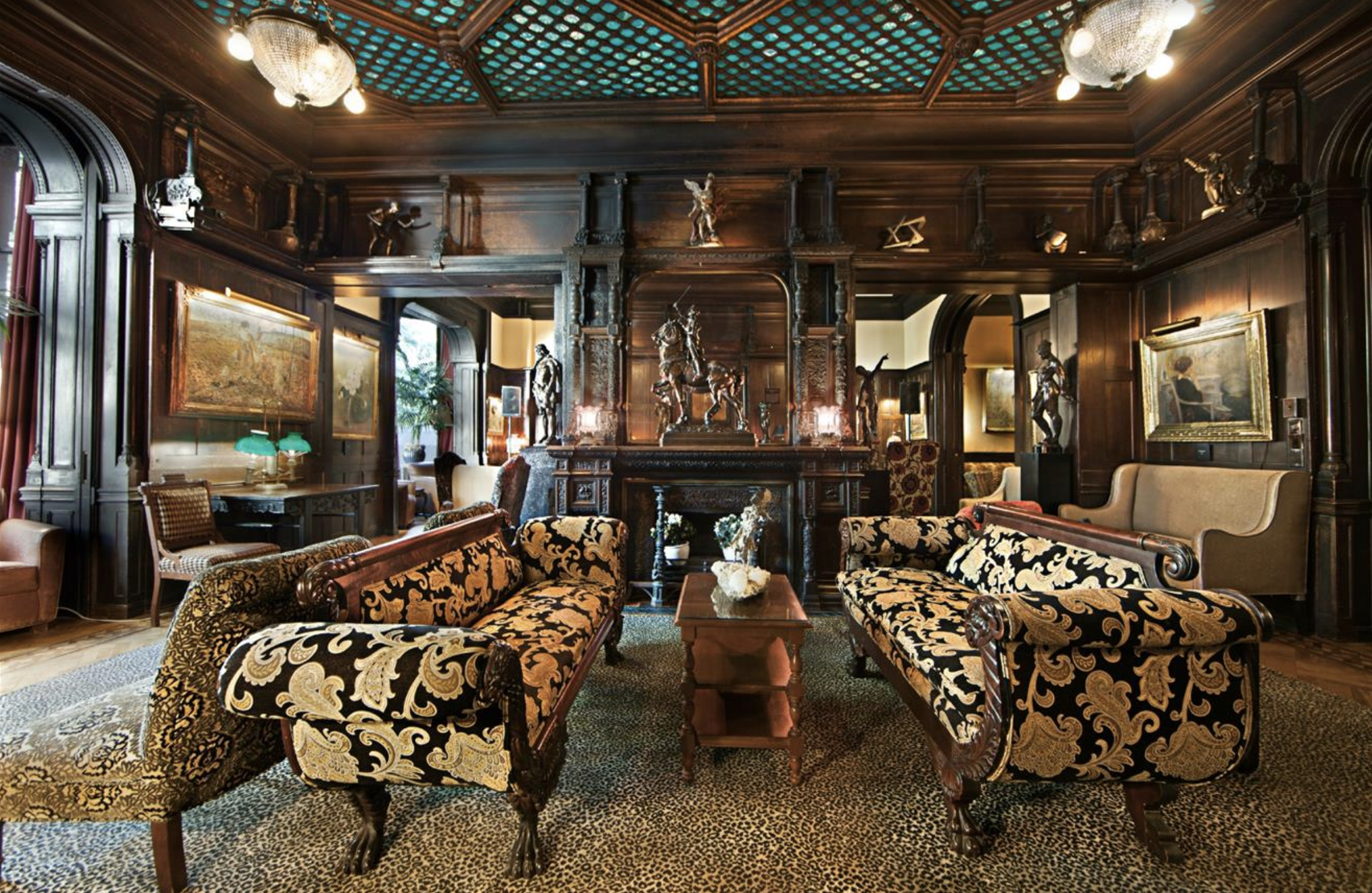 The parlor of The National Arts Club